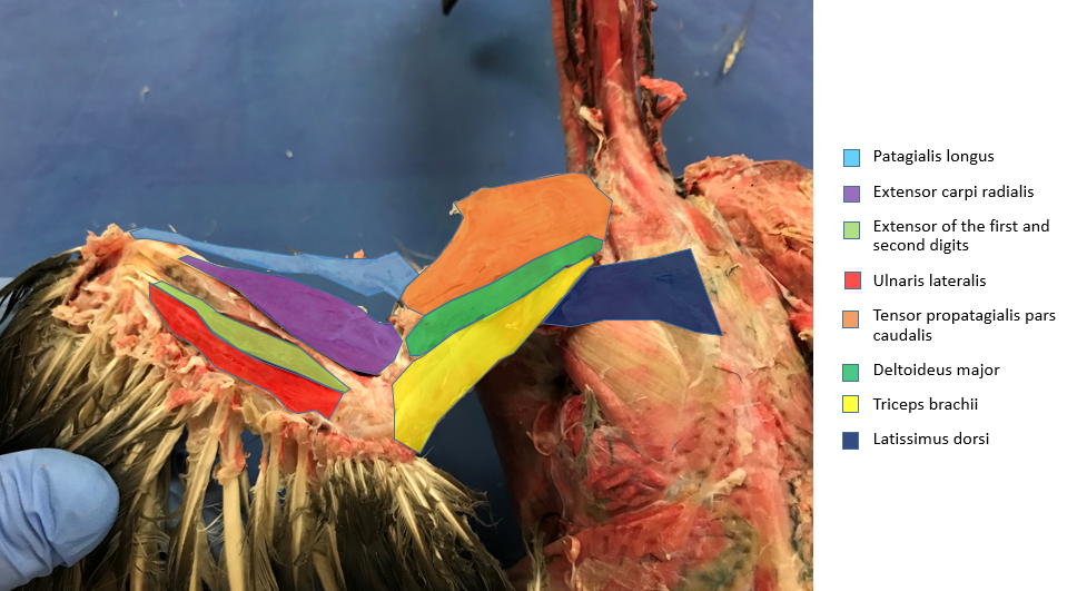 Eight labelled muscles on the dorsal side of a dissected pigeon wing.